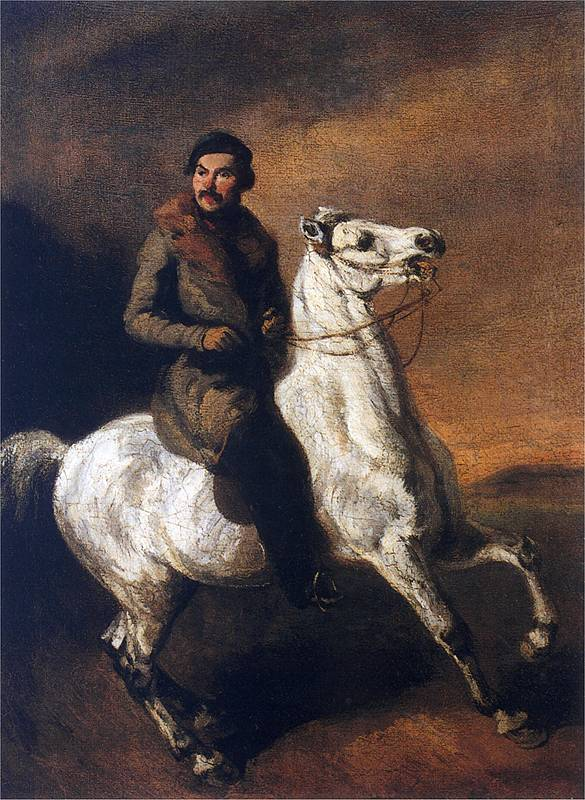 Maksymilian Oborski on a horse 1824. Oil on canvas. 89 x 62 cm. by Piotr Michałowski National Museum in Krakow.